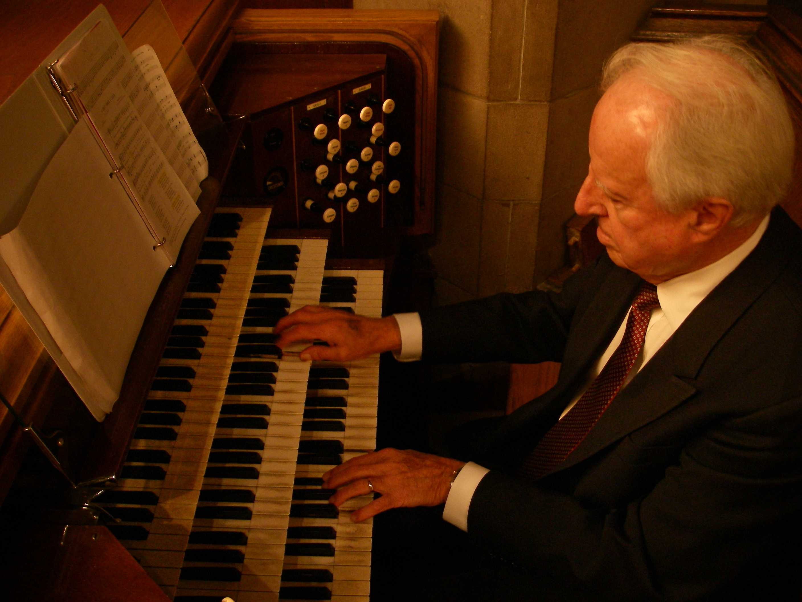 Malcolm McGrath on pipe organ console with sunlight streaming into Knox Chapel, taken during Christmas concert performance led by Malcolm McGrath